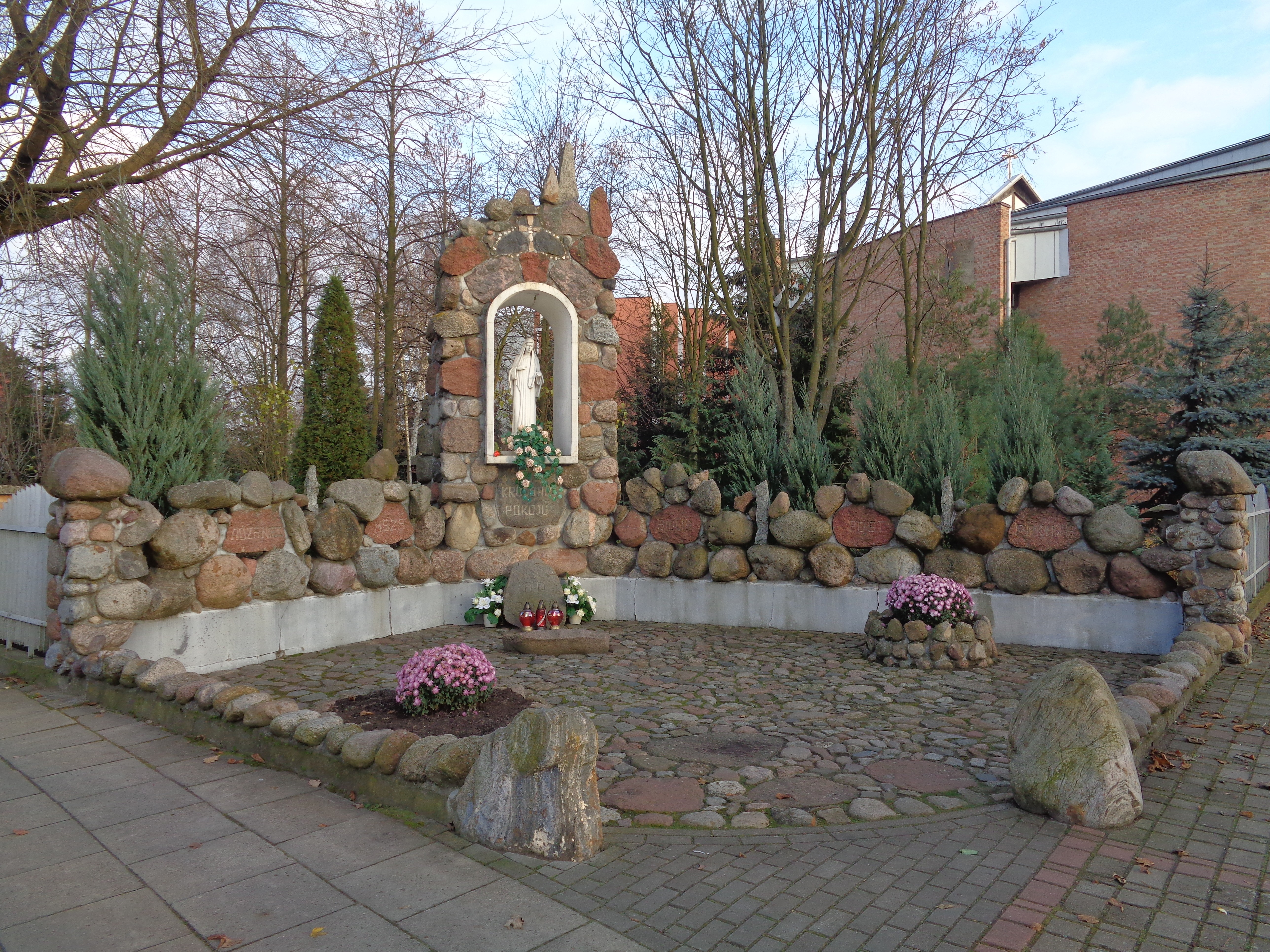 Cavern of Mother of God, Queen of Peace by church of the Saintest Savior in Włocławek, built in 2004 year.